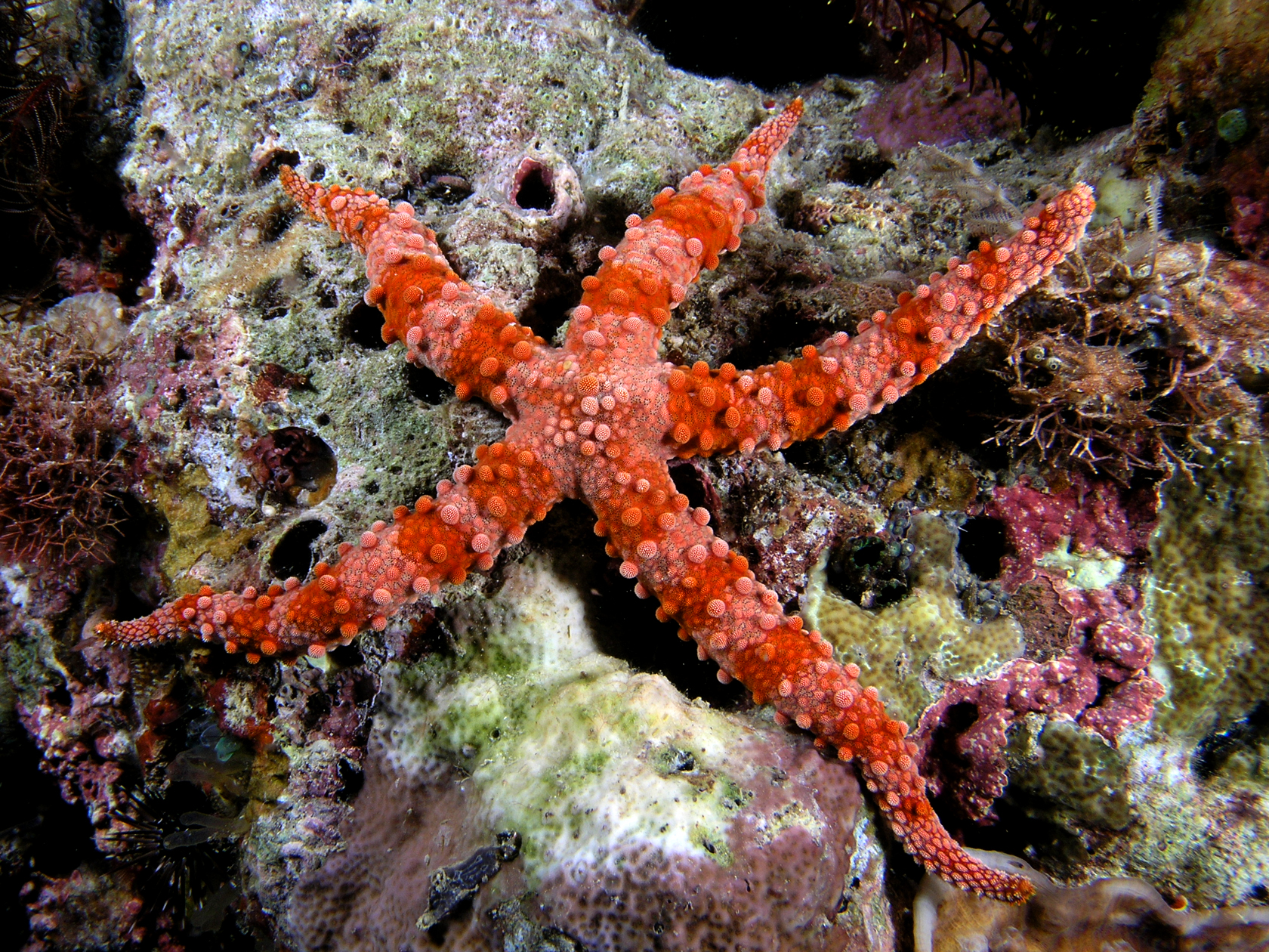 Large red starfish Gomophia gomophia from Komodo National Park